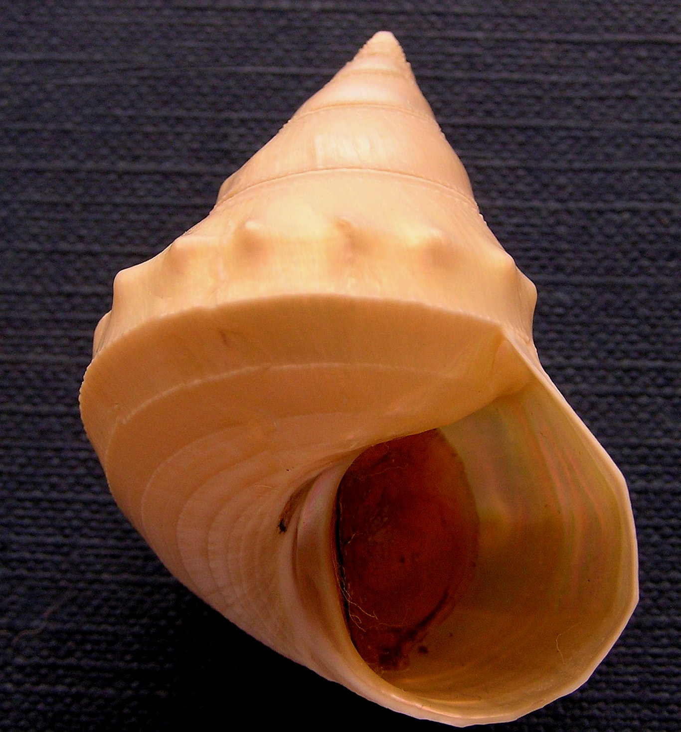 Ginebis argenteonitens (Lischke, 1872); family Calliotropidae; Japan